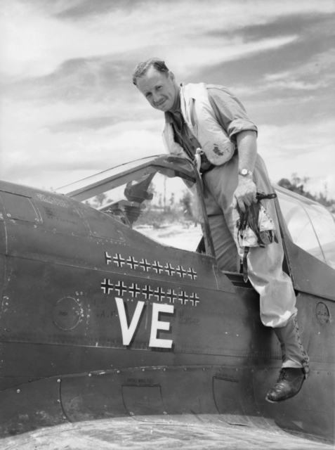 Noemfoor Island, Dutch New Guinea. 1944-10-21. The Commanding Officer of No. 80 (Kittyhawk) Squadron RAAF, Squadron Leader J. L. Waddy DFC of Sydney, NSW, climbing into his Kittyhawk aircraft to go on a strike from the advanced RAAF South-West Pacific Base. With fifteen and a half Axis aircraft to his credit he is one of Australia's fighter aces. His "kills" are recorded in traditional fashion on the fuselage of his aircraft.